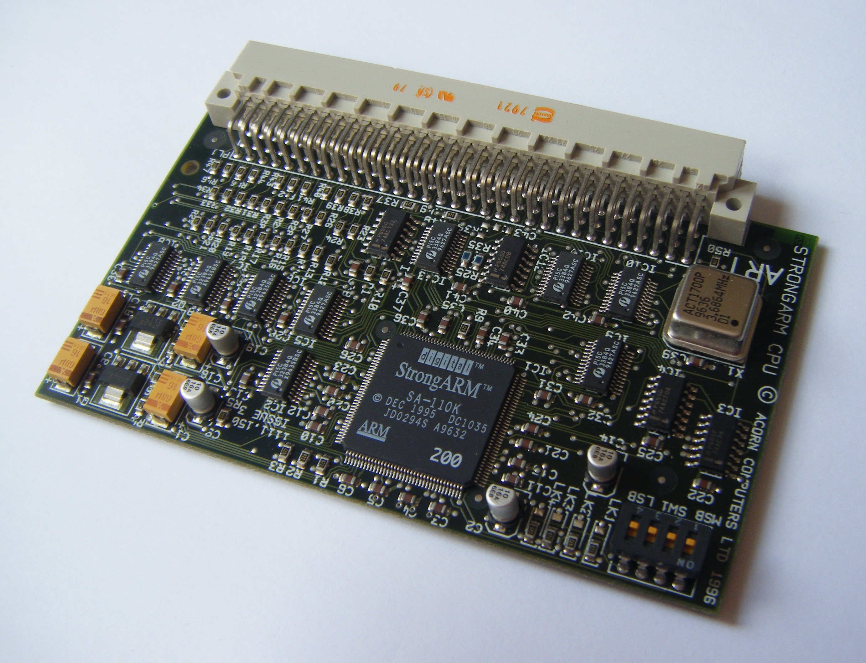 StrongARM Processorcard for Acorn RiscPC, 1996, Revision K, 200MHz, frontside oblique